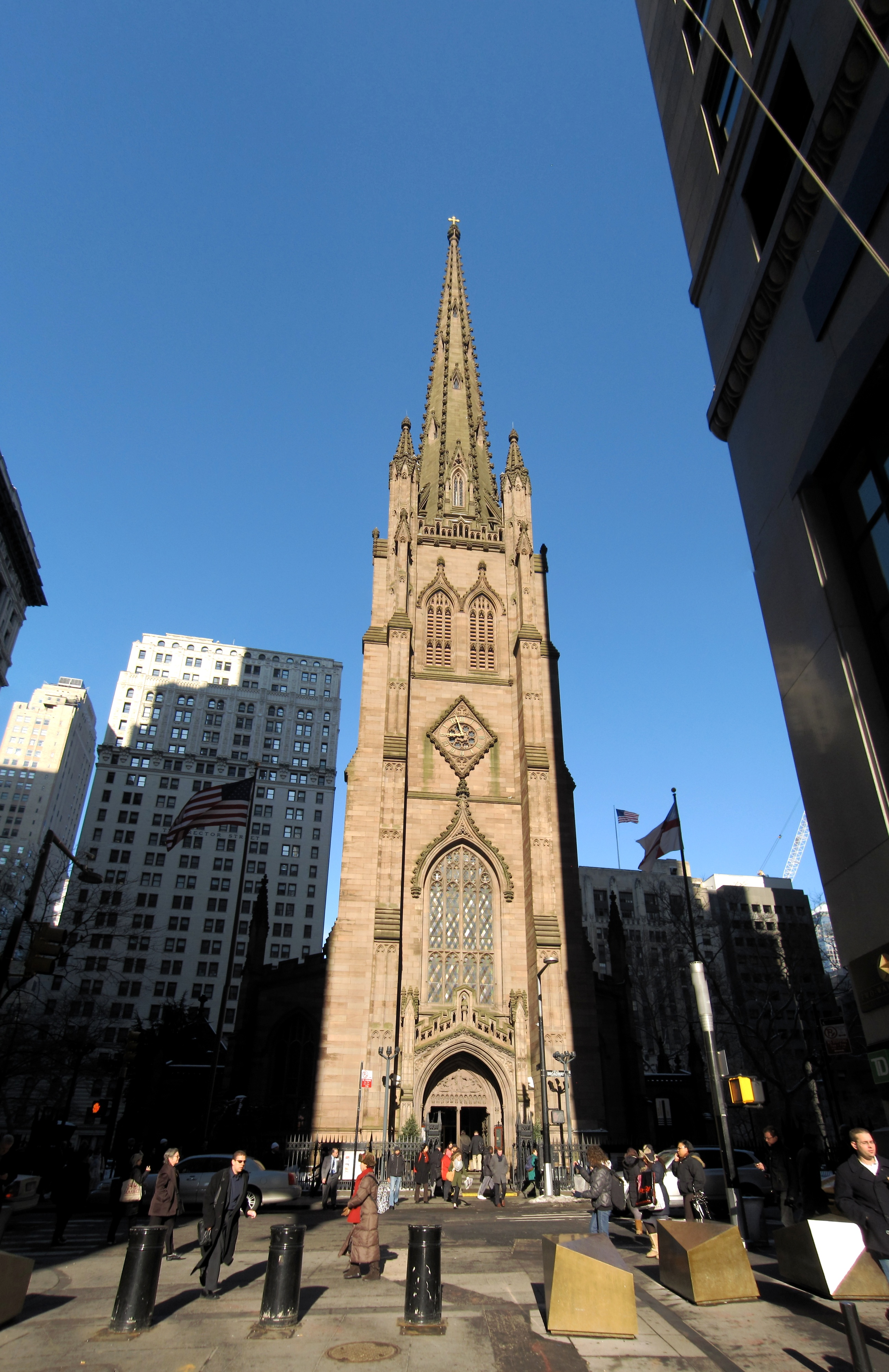 Trinity Church in New York City.